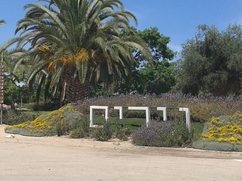 Sign at the entrance to Kibbutz Nirim, Gaza envelope area, Israel